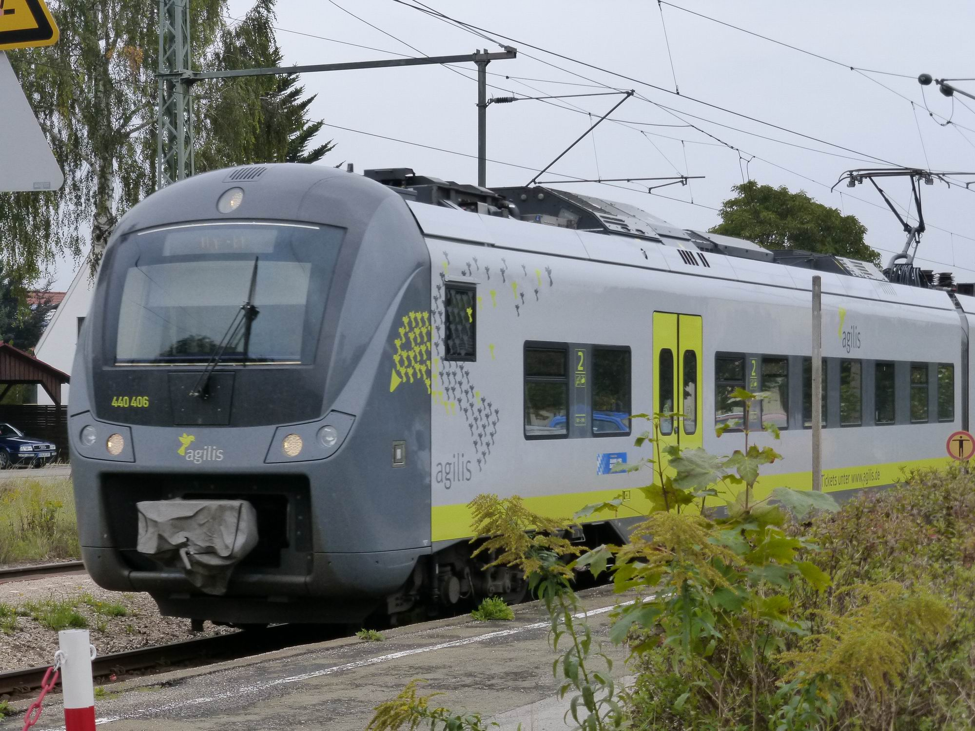 Alstom Coradia Continental train 440 406 of Agilis arriving at the station of Abensberg (Lower Bavaria)